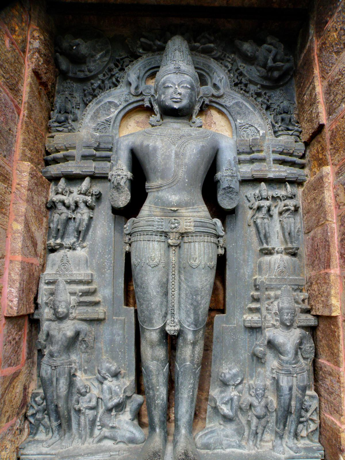 Surya or the Sun God, Konark.